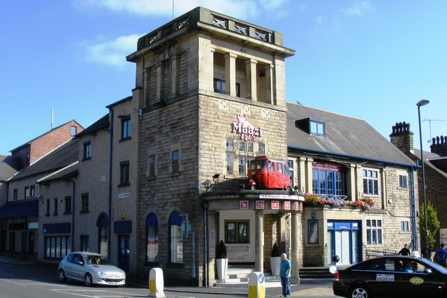 The Maazi An Indian restaurant on the corner of Causeway Street and Steep Turnpike in a premises that was the former home of The Ritz Cinema.